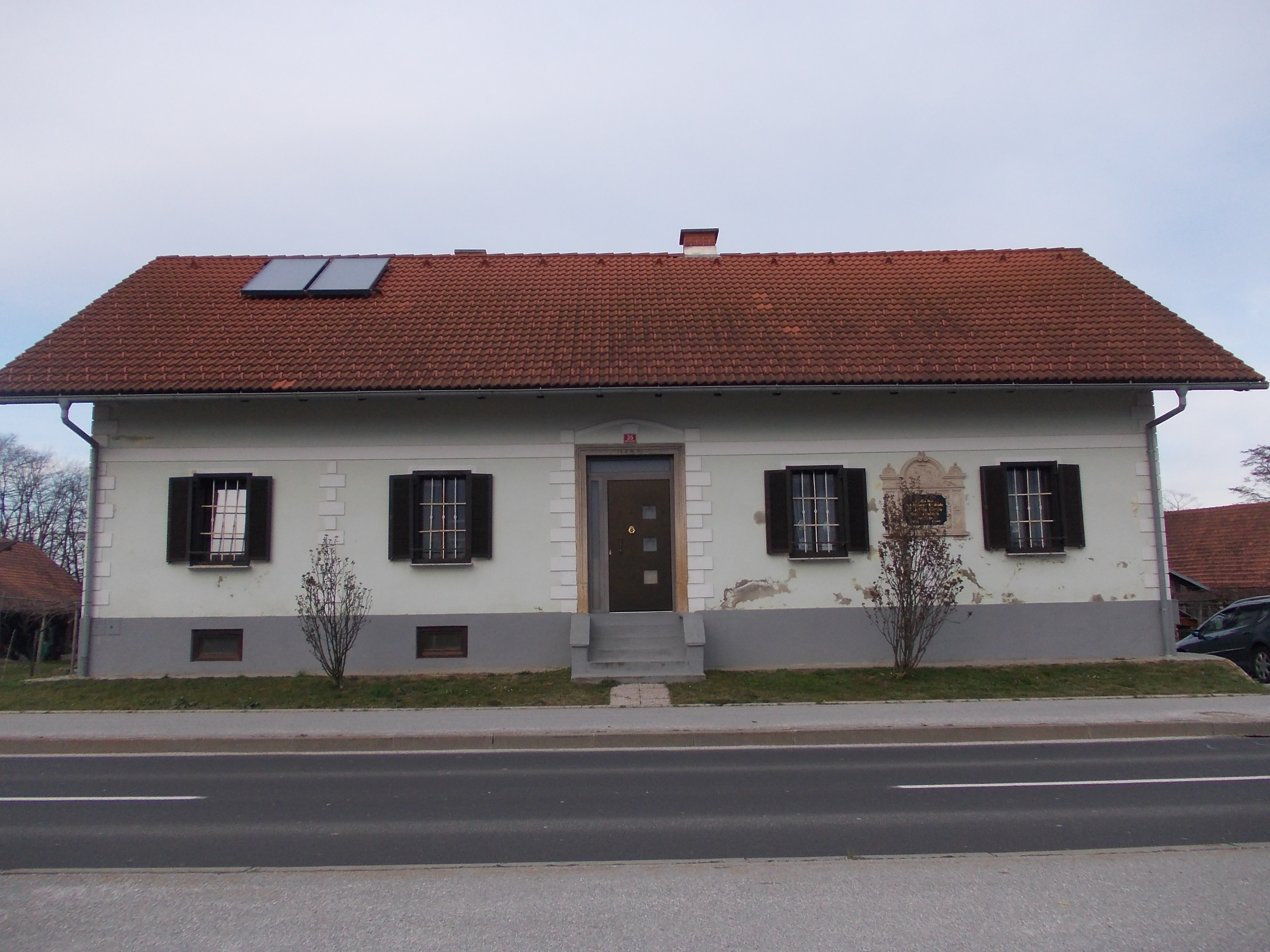 Jakob Missia's birth house in Hrastje - Mota